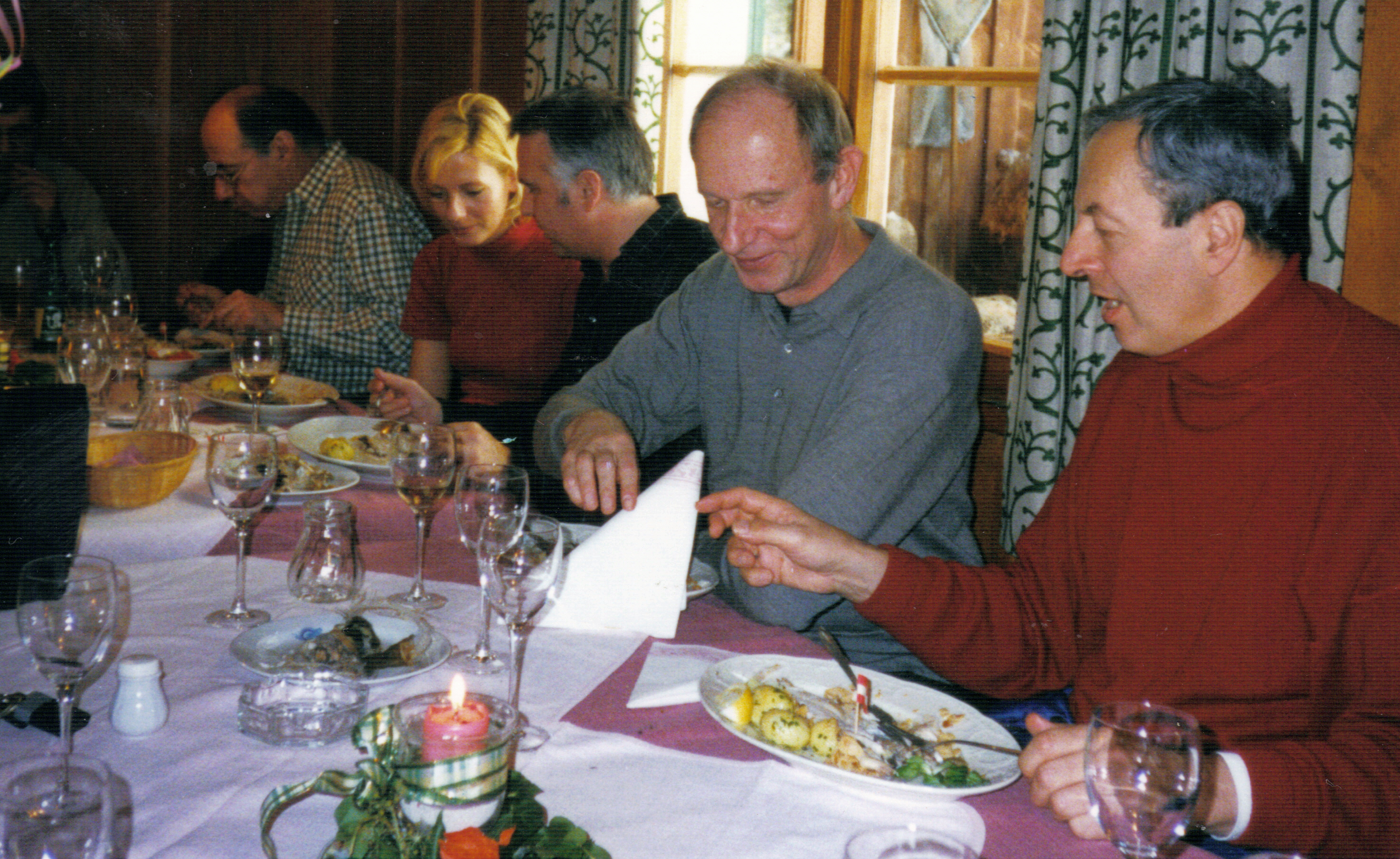 Kautsky-Kreis Seminar, Bad Mitterndorf, Austria, Vitalhotel, after work